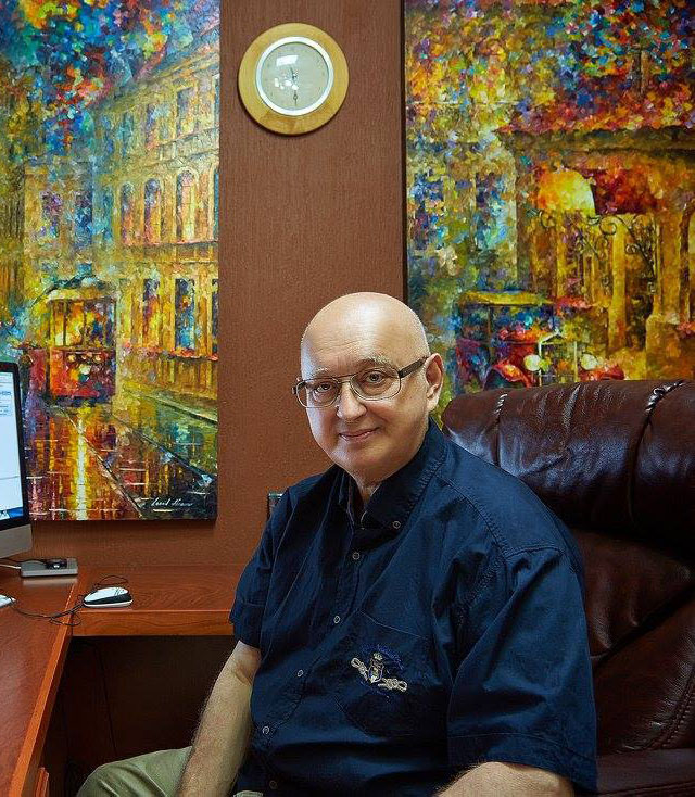 Leonid Afremov at his office in Playa del Carmen, Mexico - February, 2015